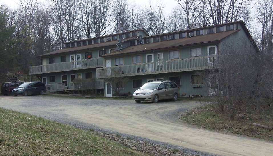 Apartment building on Peggy Lane, New Vrindaban, WV, US